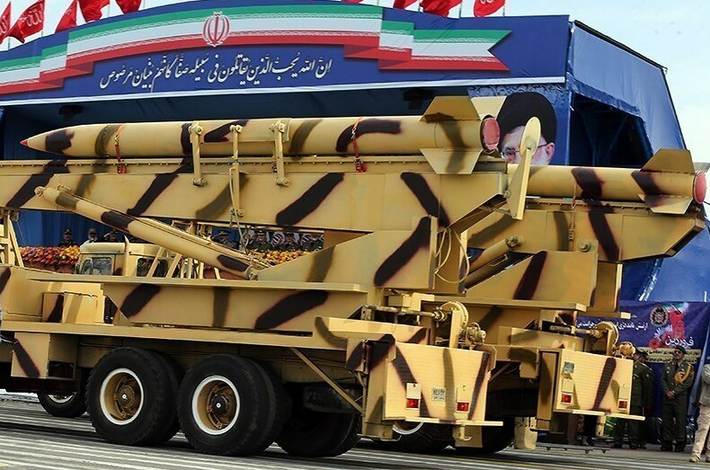 Nazeat-6H artillery rockets at Iran's Military Day 2014, held at the mausoleum of the late founder of the Islamic Republic, Imam Khomeini, south of Tehran. see here for the ID.